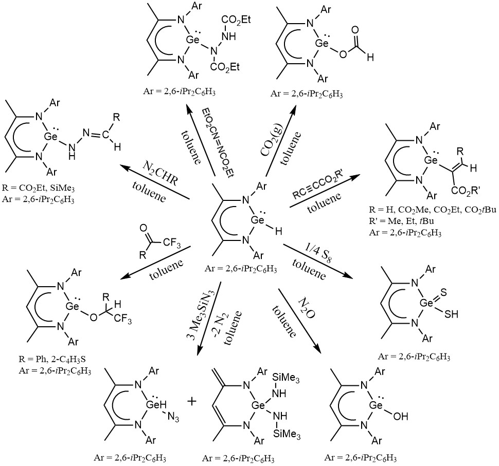 Reaction Wheel for Germylene Hydride